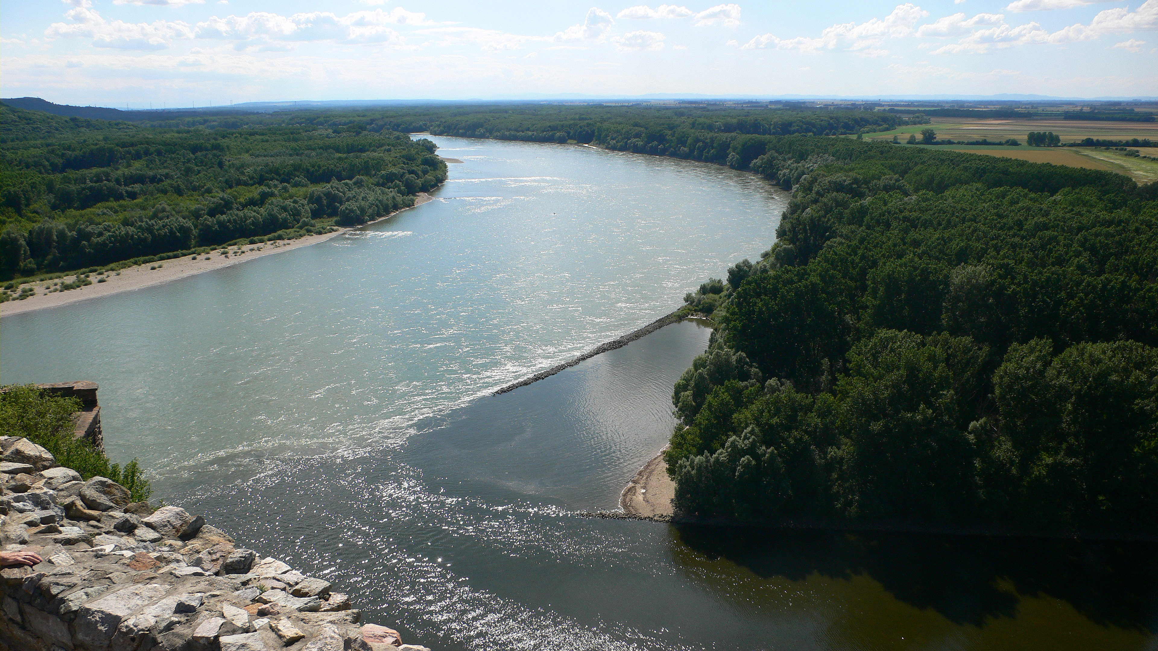 Slovakia Devin Castle .. right down the castle the river Morava joins the Danube forming an amazing view from the castle.